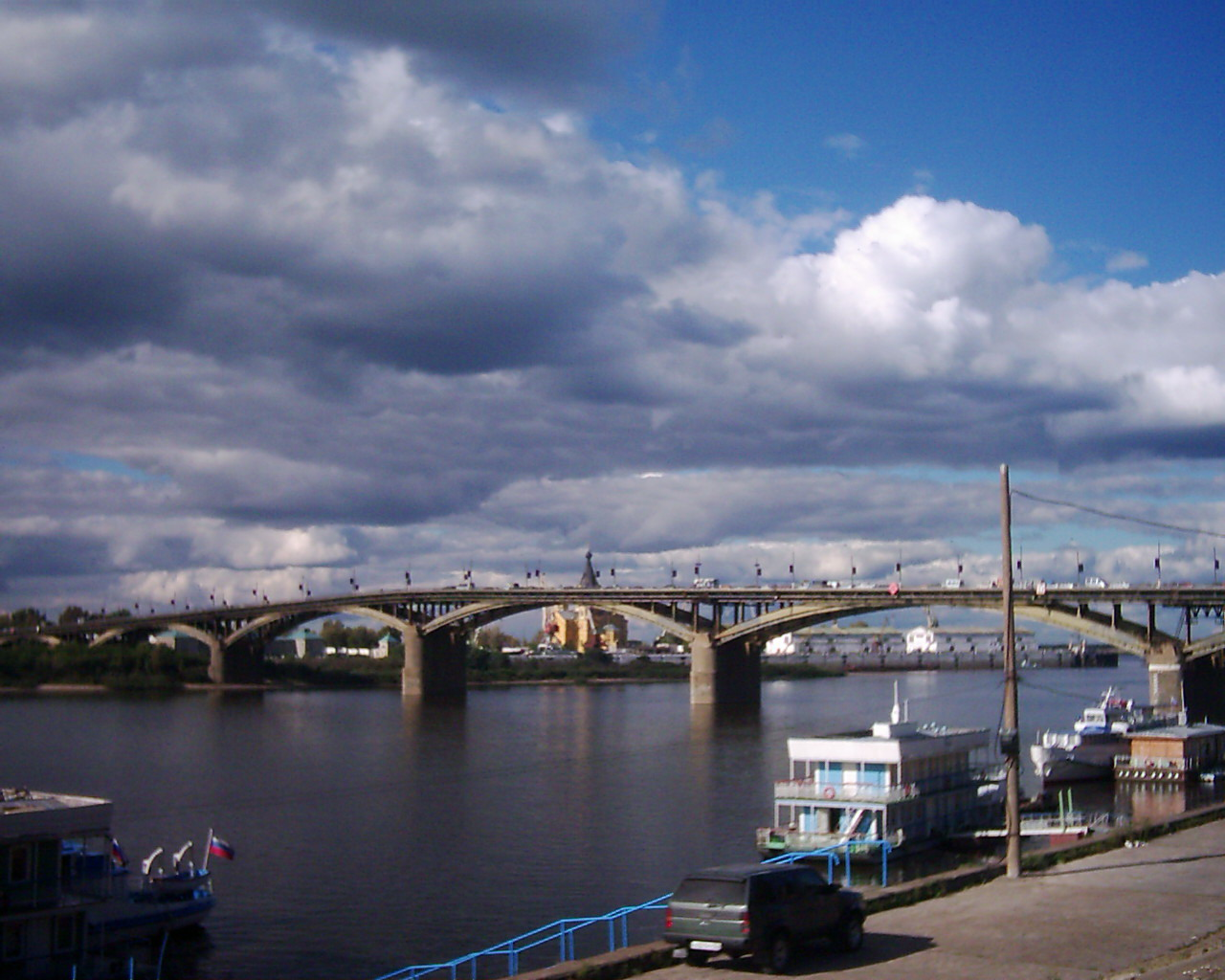 Oka River in Nizhny Novgorod